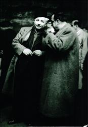 Farid Chehab with Riad Solh photo